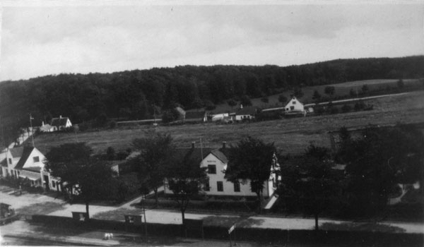 The still open area East of Kvistgård Station in Kvistgård, Helsingør Municipality, Denmark